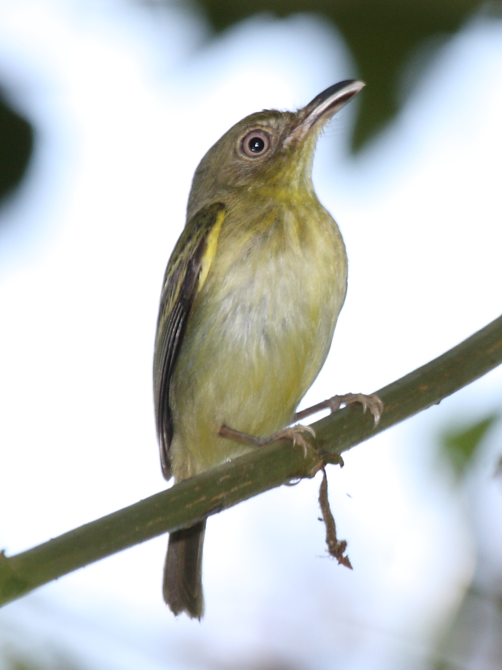 Southern Bentbill Oncostoma olivaceum. Taken in Panama.